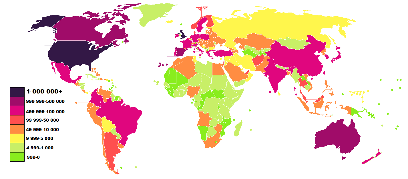 Number of Scratch users worldwide